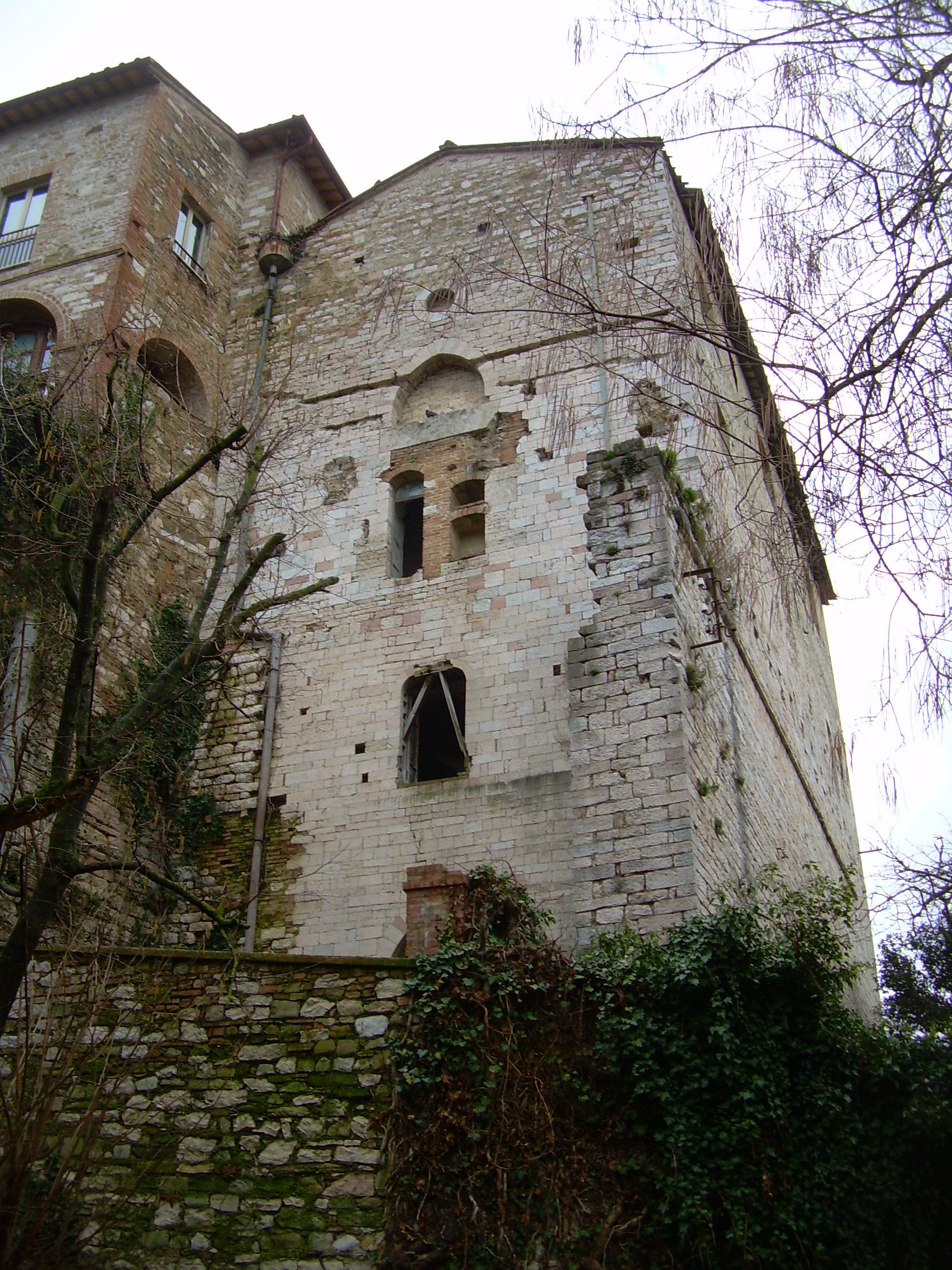 Romanesque "tower" church built before 1027 leaning against the Etruscan wall. Architectural structure with overlapping classrooms.